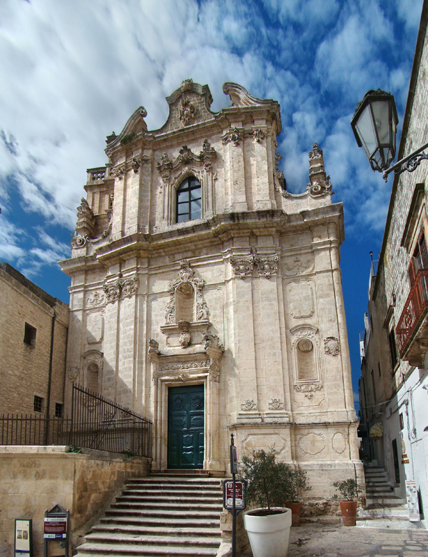 Church of San Vito Martire, Ostuni, Apulia, Italy.